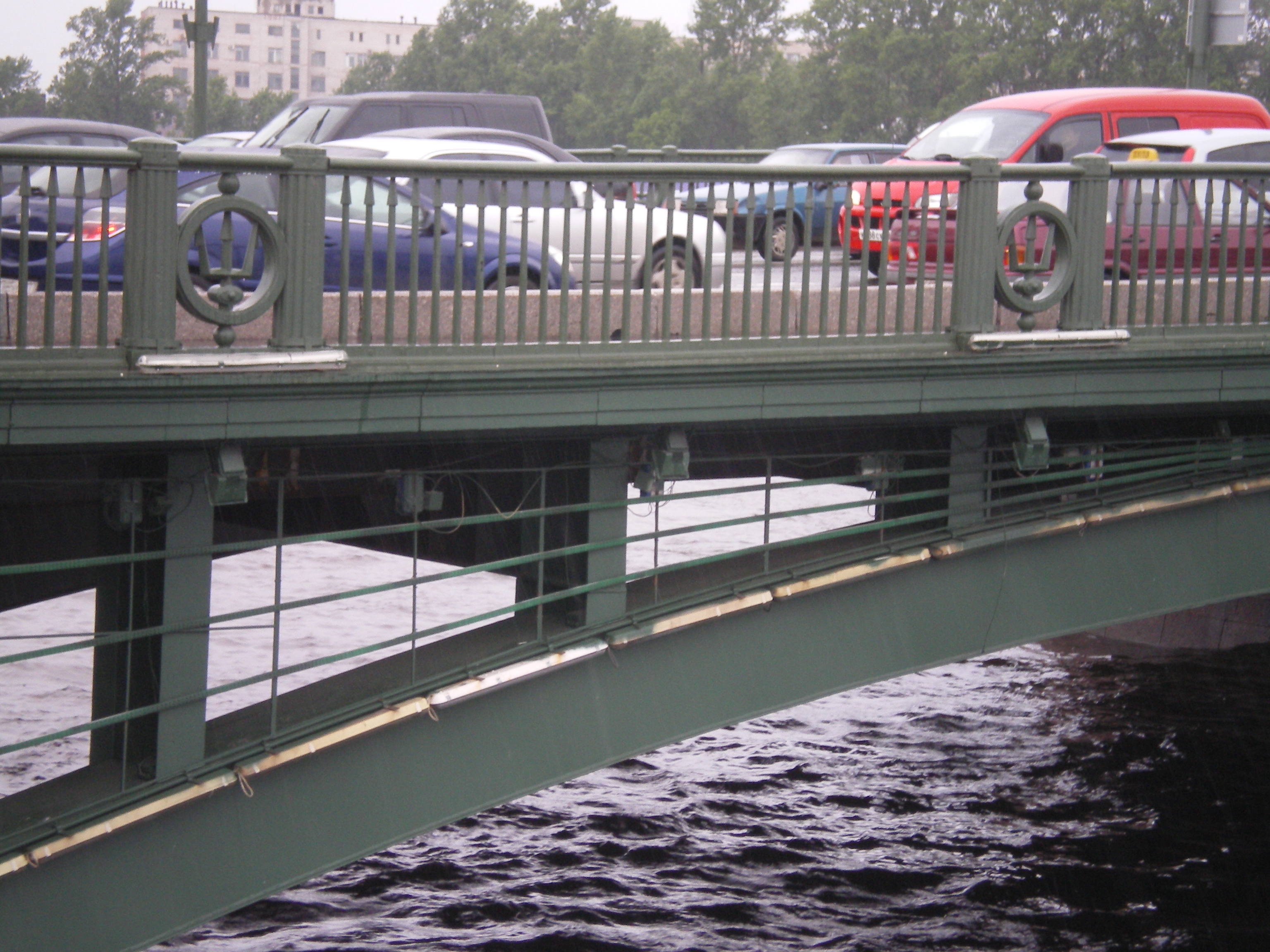 Fence of Birzhevoy Bridge